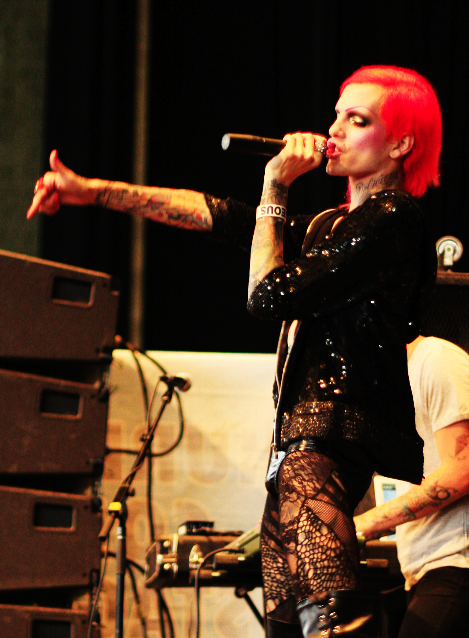 Jeffree Star at the Vans Warped Tour in Mansfield, MA. 2009